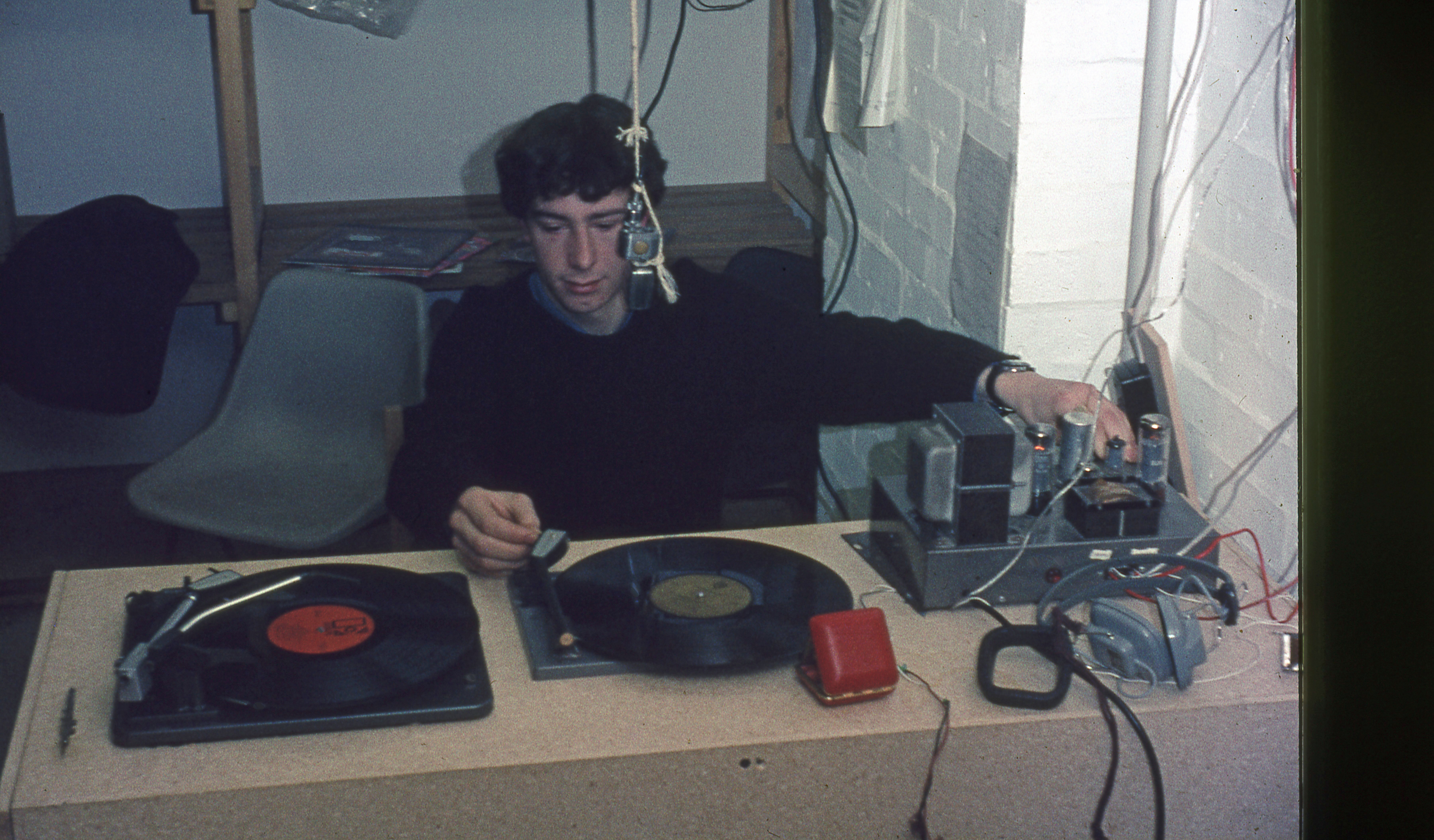 Martyn as DJ broadcasting to UKC over the radiators in 1968